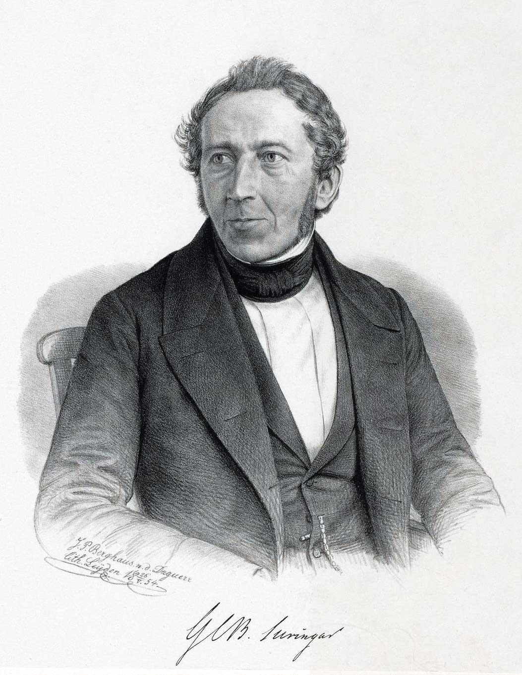 Gerardus Conradus Bernardus Suringar (1802-1874), professor of medicine at Leiden University